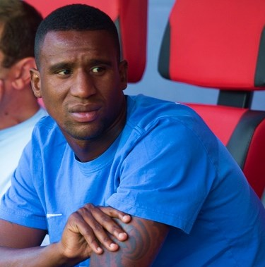 Douglas 2014